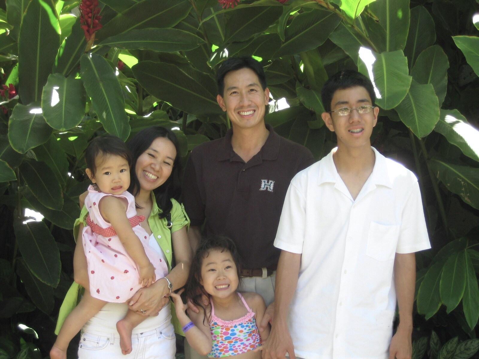 Charles Djou with his family